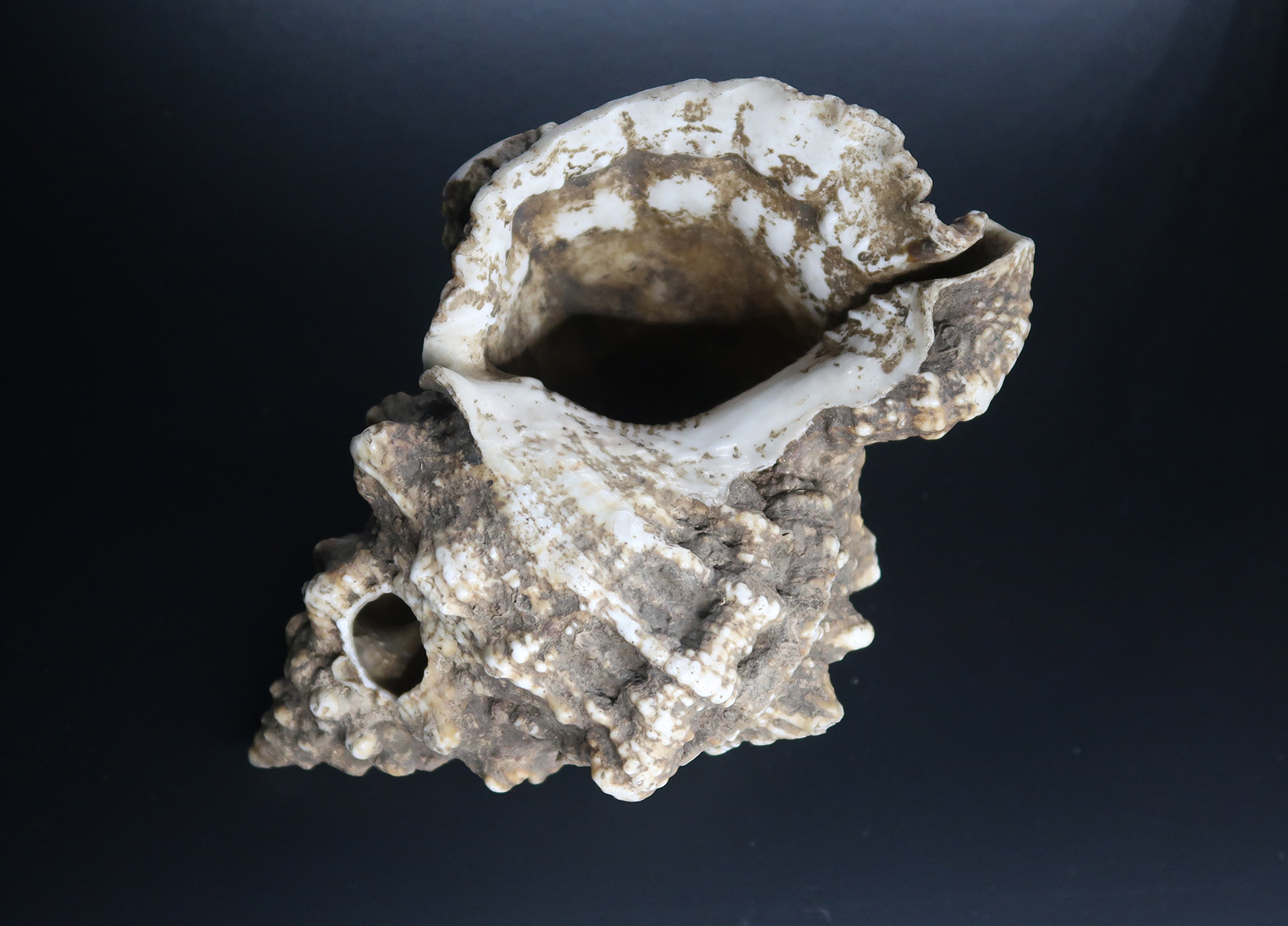 Conch of call, antsiva . Madagascar. Shell Etritonium gigas pierced on the side. Muséum de Toulouse. France